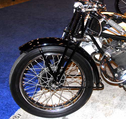 Photo © by Jeff Dean